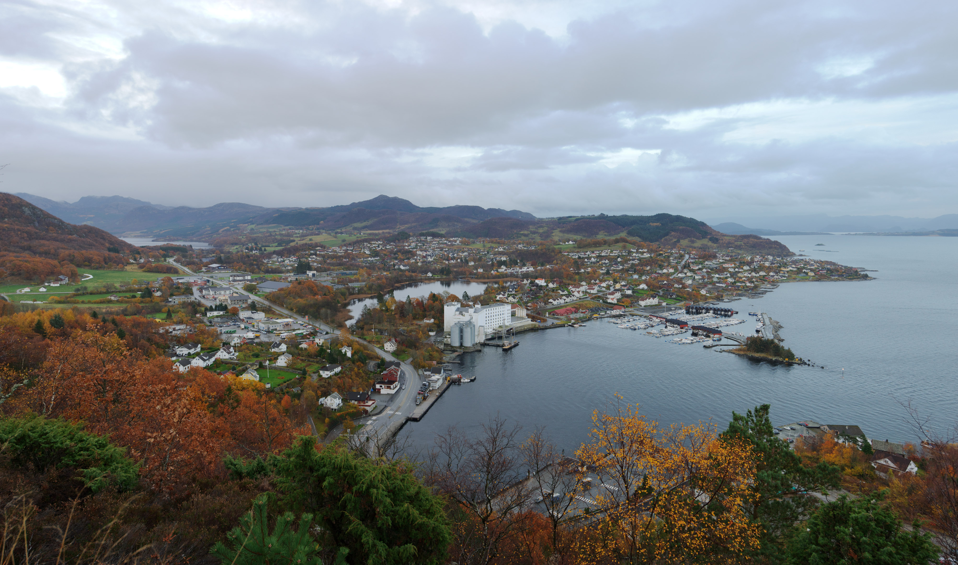 Image of the town known as Tau, located in Rogaland, Norway.